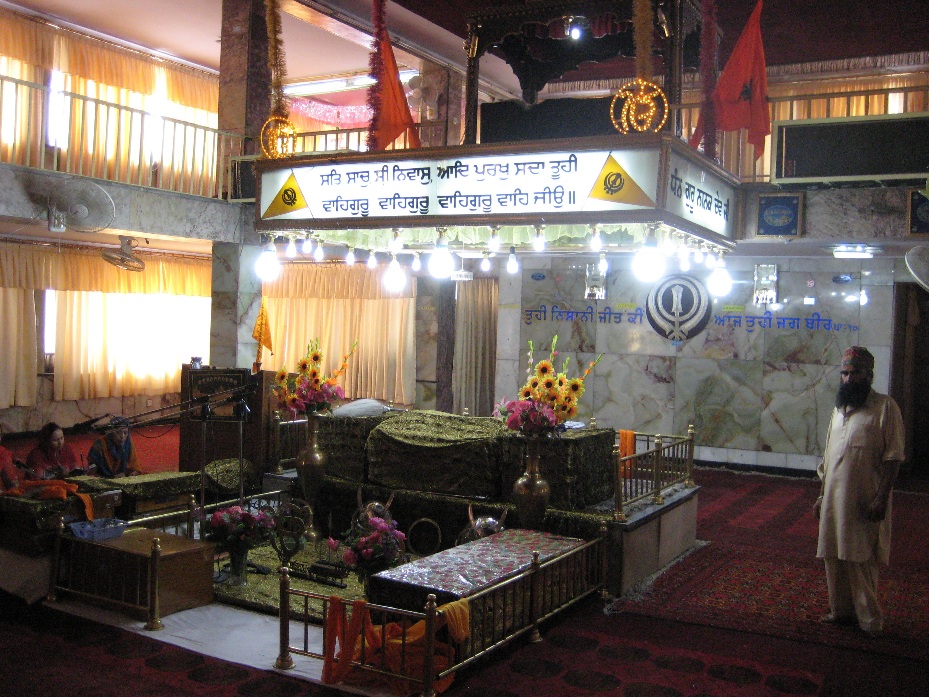 Inside the Gurdwara Sahib in Karte Parwan, Kabul, Afghanistan